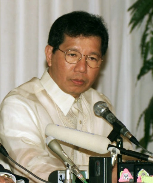 Cropped from this U.S. Defense Department photo. Original description: Philippines Secretary of National Defense Orlando Mercado (right) listens as Secretary of Defense William S. Cohen (left) responds to a reporter's question during a joint press conference in Manila, Philippines, on Oct. 3, 1999. Cohen is traveling through the Western Pacific to meet with senior government leaders. DoD photo by Helene C. Stikkel. (Released)